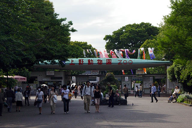 Ueno-zoo in Ueno,Tokyo.Taken by Los688 in 2 May 2005.